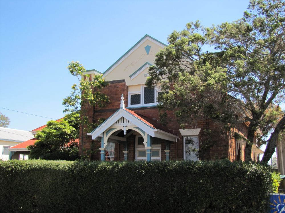 Picture of the Pittsworth Shire Council Chambers and Shire Hall from the outside.